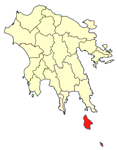 kythira province